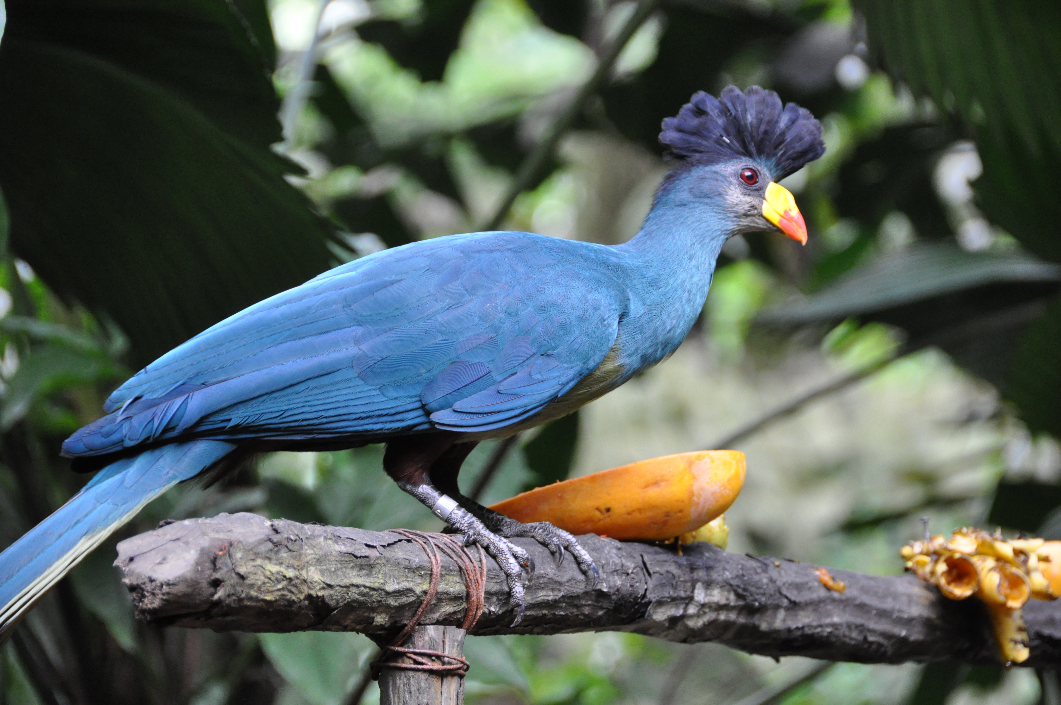 A Great Blue Turaco at Jurong Bird Park, Singapore.